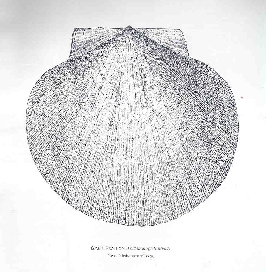 Giant Scallop (Pecten magellanicus) two-thirds natural size Subject: Giant scallop, Scallops Tag: Shellfish